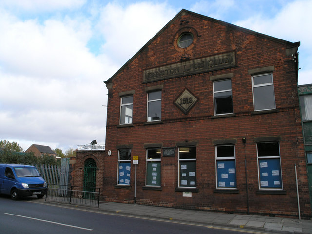 Beeston Lads Club. Like 599982 this is surrounded by demolition for a new Tesco store. I'm not sure whether it's set to survive or go. On closer examination I discovered that the notices you can see in the windows refer to the fact that the club had moved to another location on the 22nd October, so I expect this building will soon be demolished.